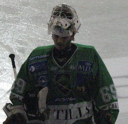 Picture of Matija Pintarič, Slovenian ice hockey player.